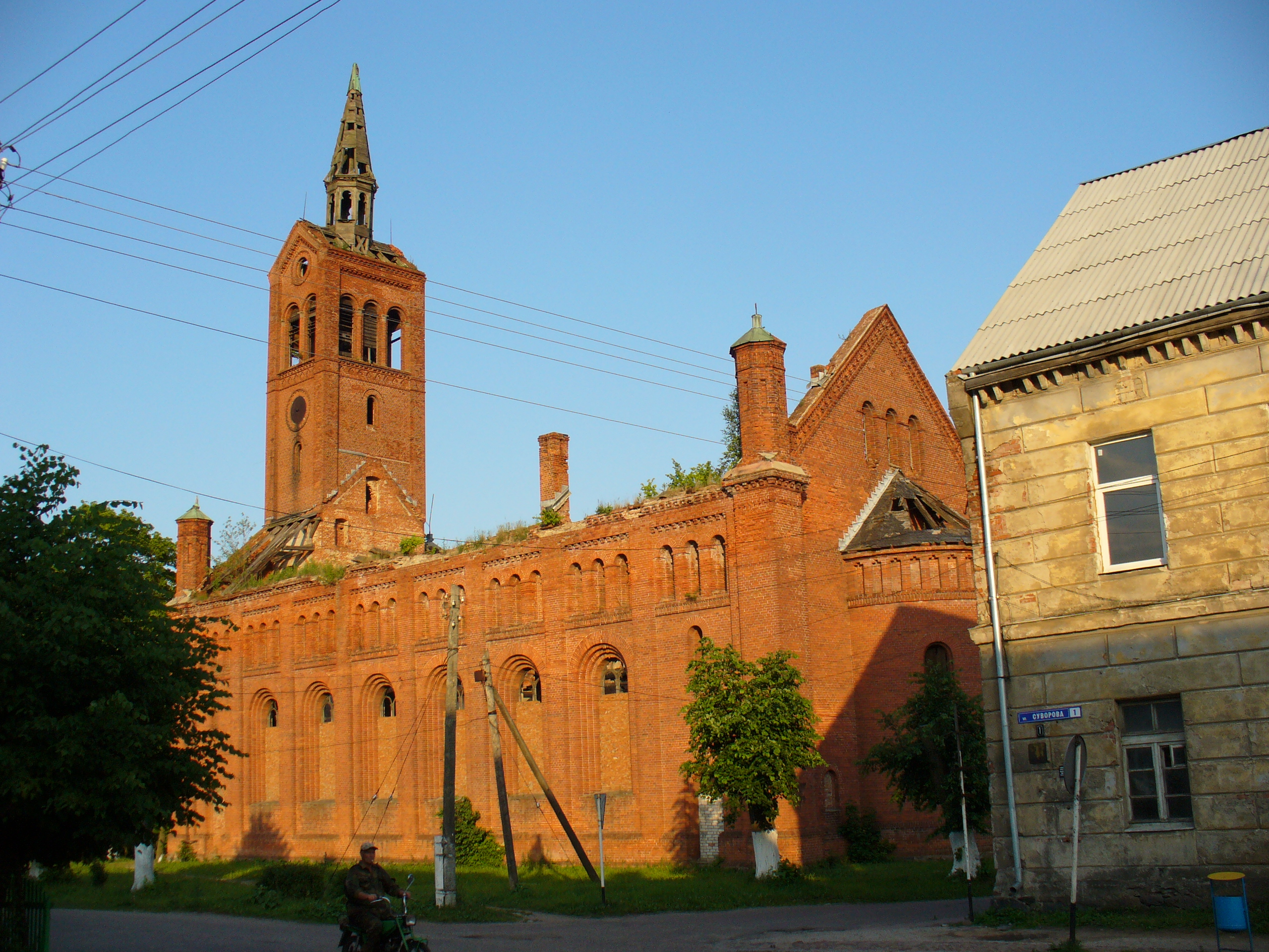 Church Ruin Darkehmen